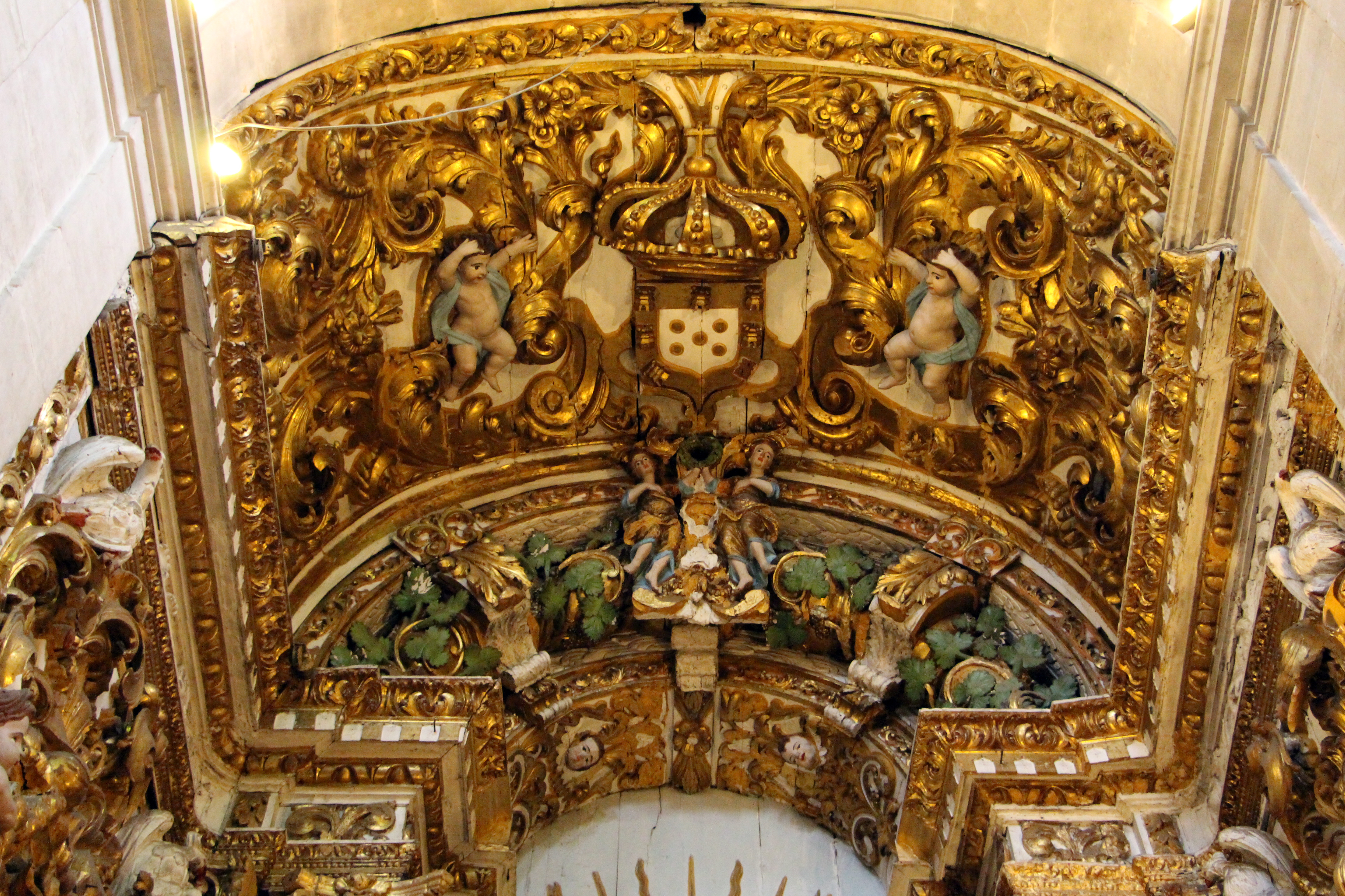 Cathedral-Basilica of Salvador